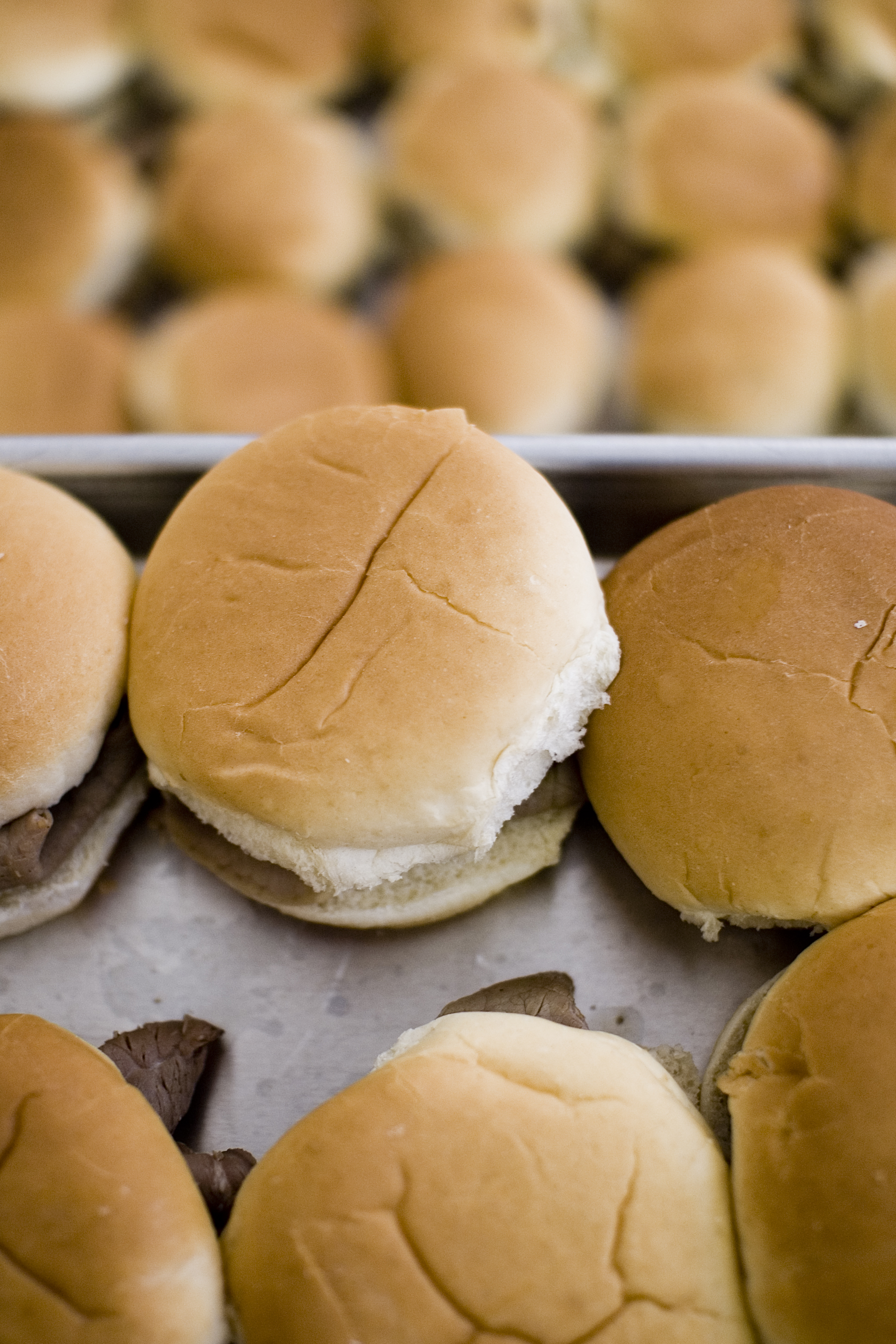 Mass-produced hamburgers.